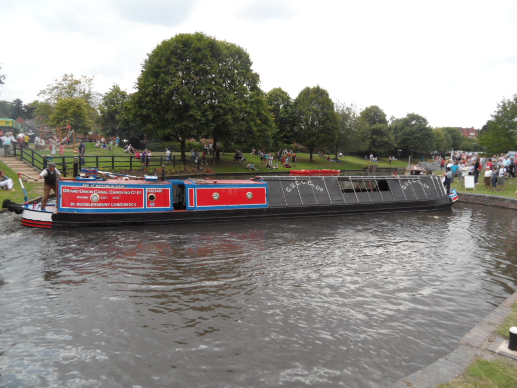 Hadar Maneurvering.